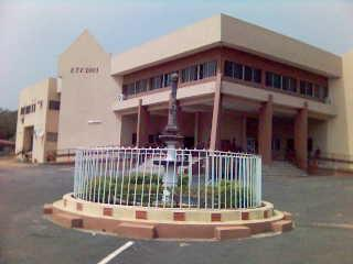 Name: Olusegun Oke Library, LAUTECH Field: Academic Library Institutions: Ladoke Akintola University of Technology (LAUTECH) Website